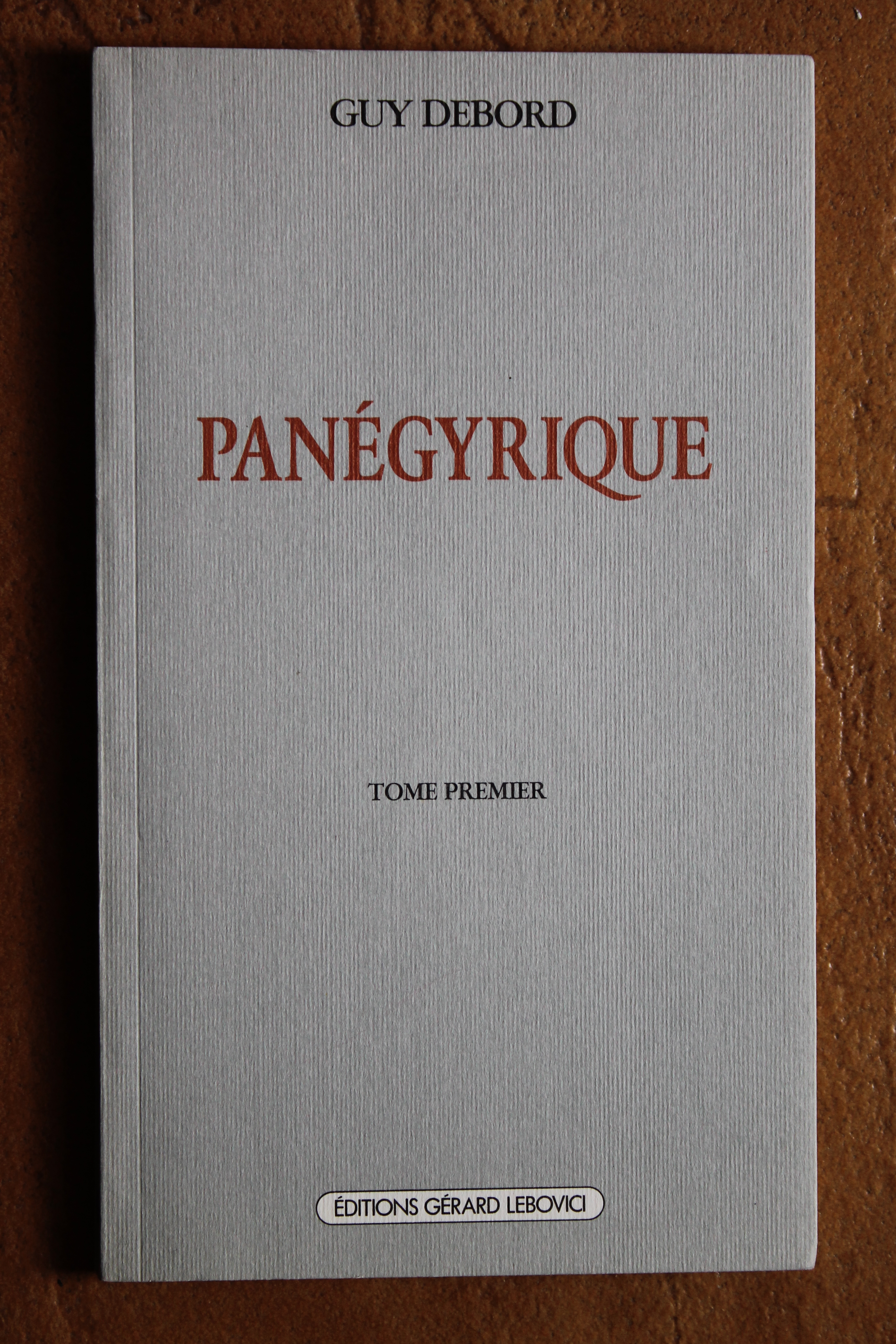 Cover of "Panégyrique" by Guy Debord (Éditions Gérard Lebovici, 1989)